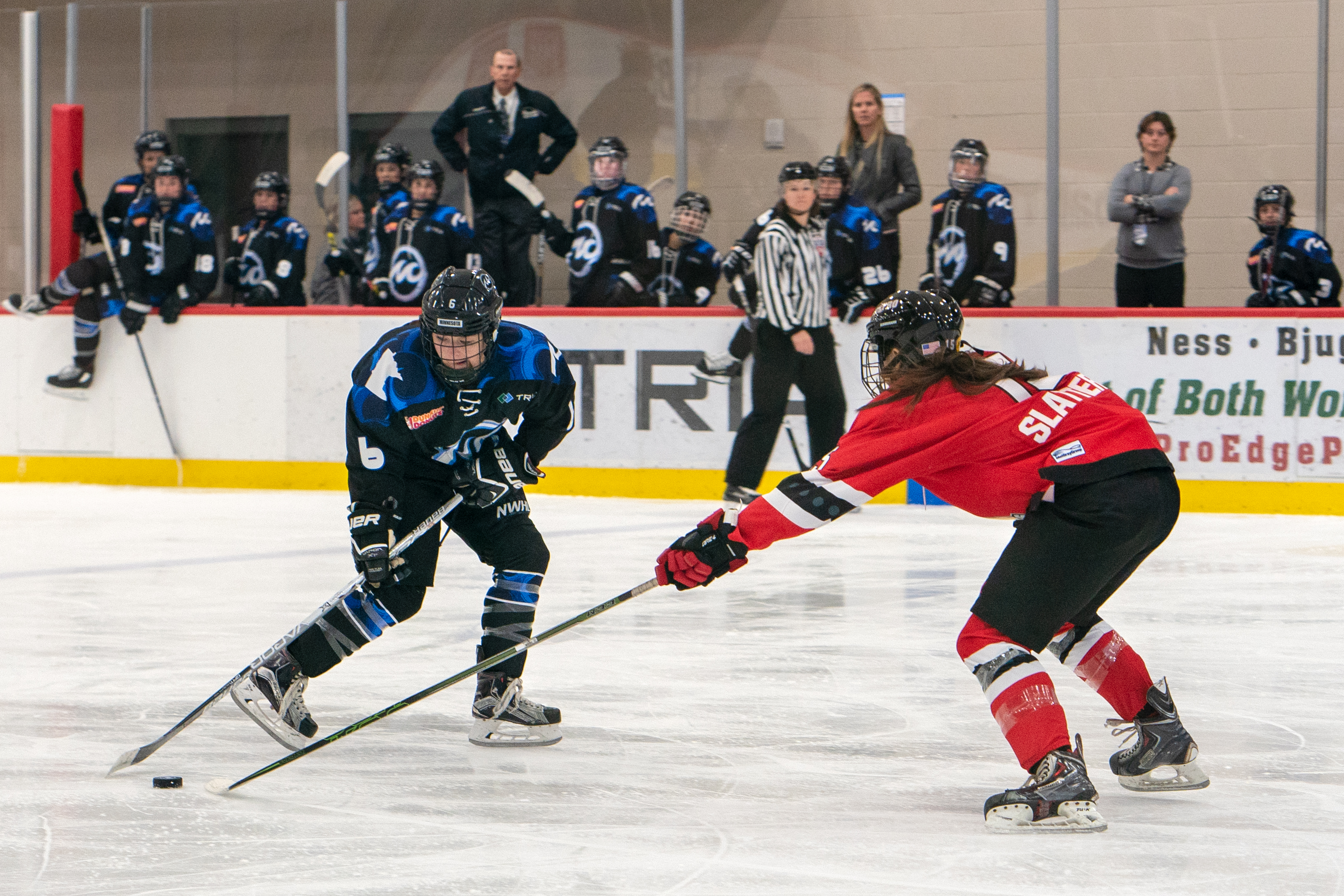 The second game in the 2018 season opening weekend at Tria Rink in St Paul MN. The Whitecaps won the game 3-1.